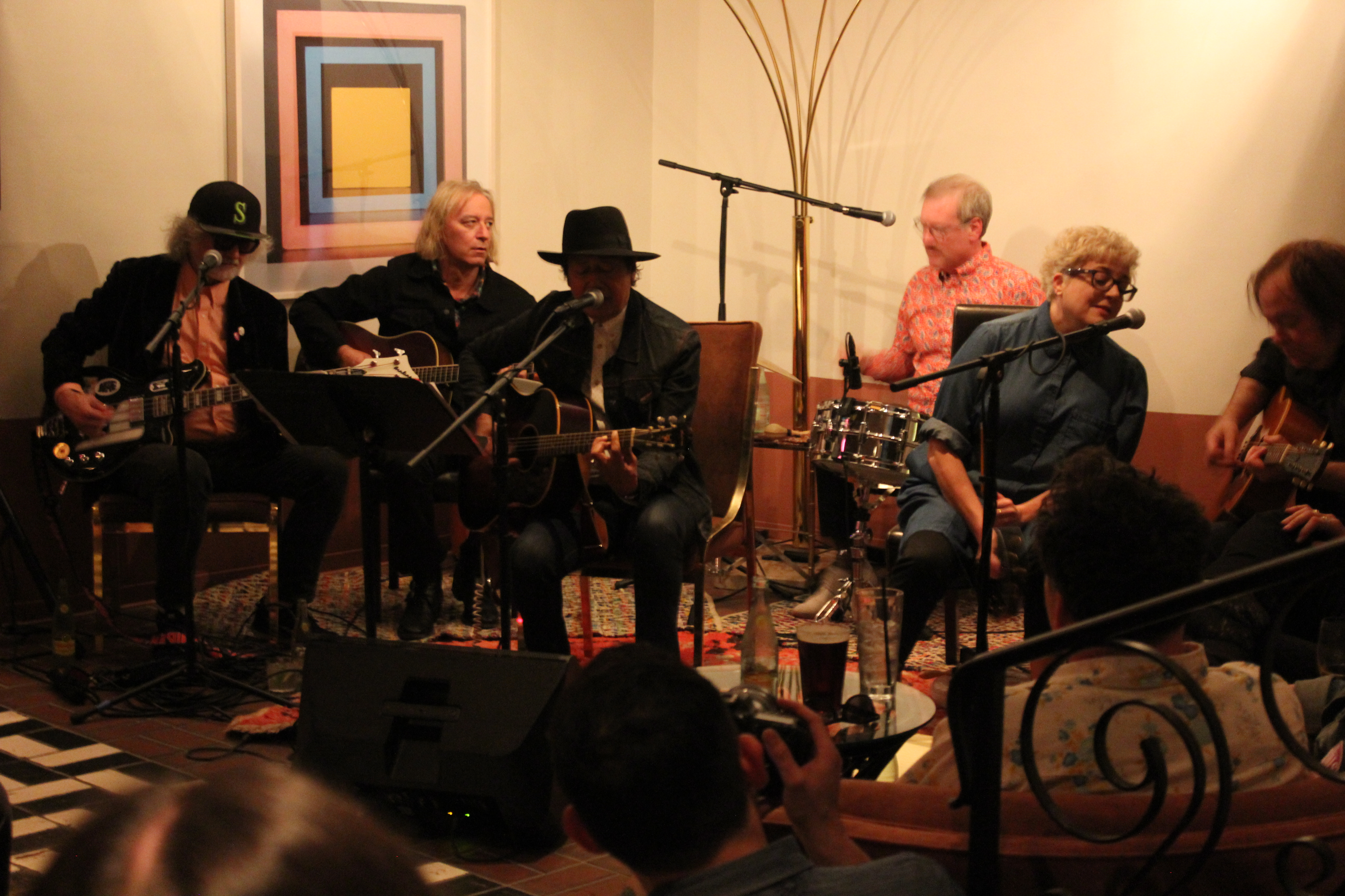 An impromptu acoustic set featuring one of my idols on acoustic guitar, Peter Buck from R.E.M. (second from the left). Also in the band - Scott McCaughey (extra musician in R.E.M. from 1995 until their 2011 breakup, also founding member of The Minus 5), Alejandro Escovedo (Texas legend, lead vocals/guitar), John Moen (drums), Kelly Hogan (backing vocals), and Kurt Bloch (on the far right, guitar). This was one of the coolest experiences of my life. To be in a crowd of no more than 30 in a hotel lobby watching Peter Buck was beyond mind-blowing. Photo taken on April 26, 2017